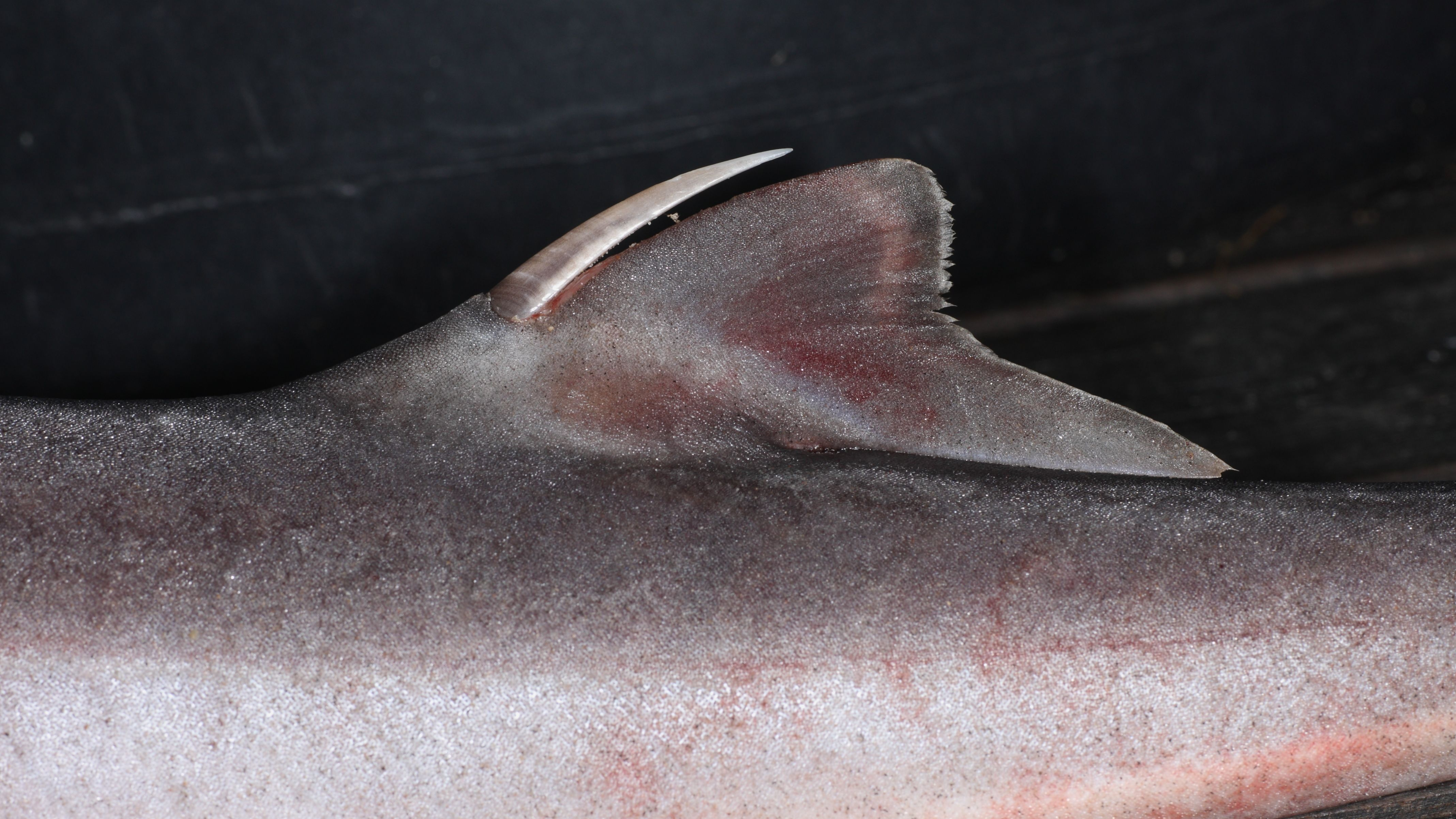 Spiny dogfish (Squalus acanthias) back spine